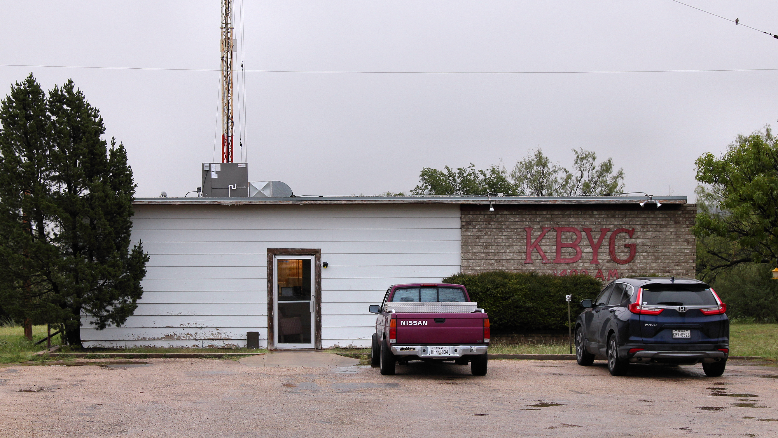 KBYG Studios in Big Spring, Texas, United States